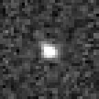 Hubble Space Telescope image of the centaur 7066 Nessus, taken on 28 September 2009.